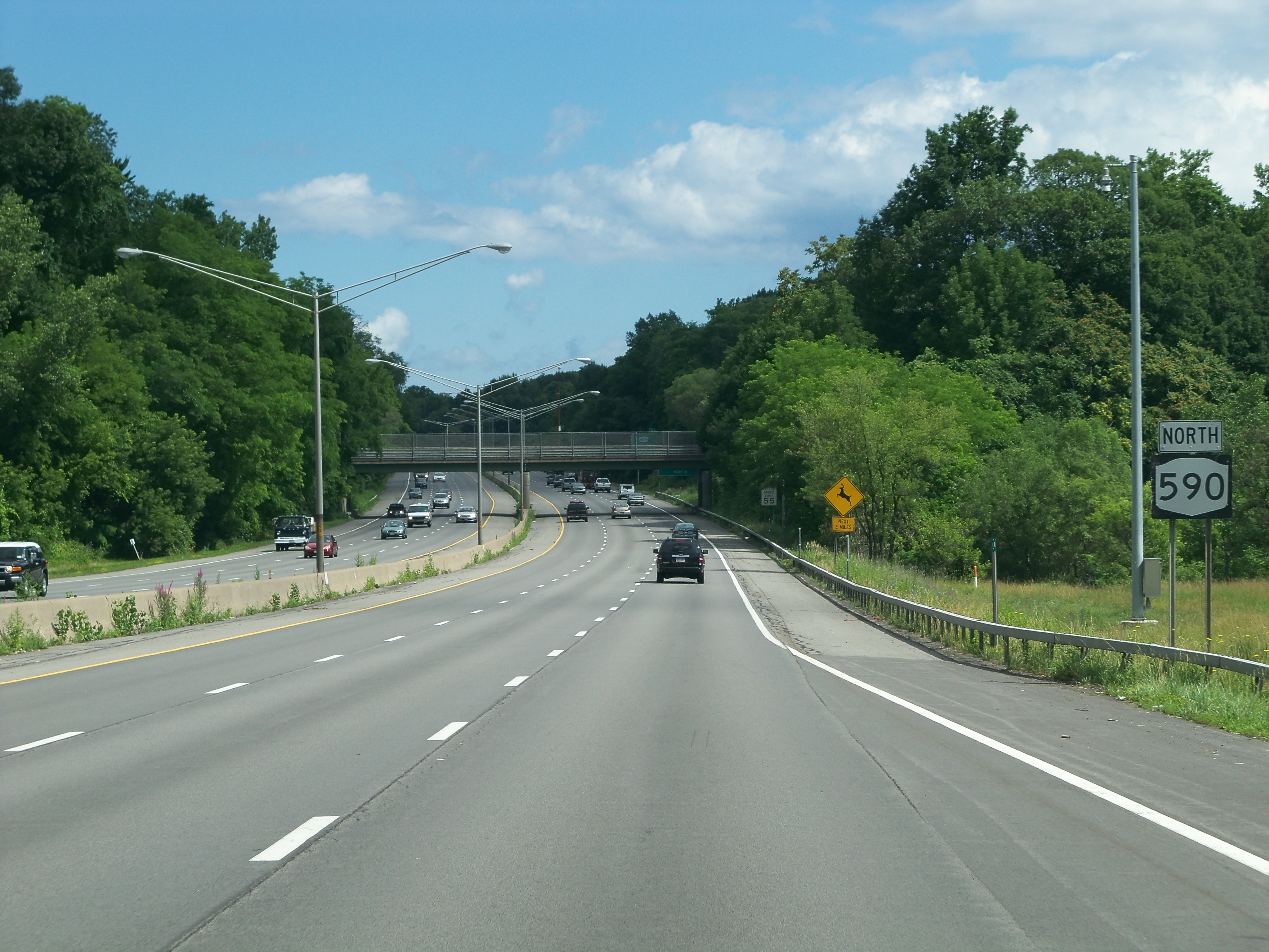 Northbound on New York State Route 590 just north of New York State Route 286 in Rochester.